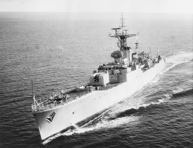 Whitby-class frigate HMS Tenby (F65), February 1963.